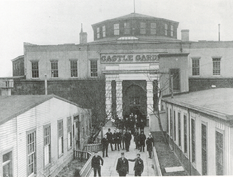 Castle Garden immigrant depot in New York City.